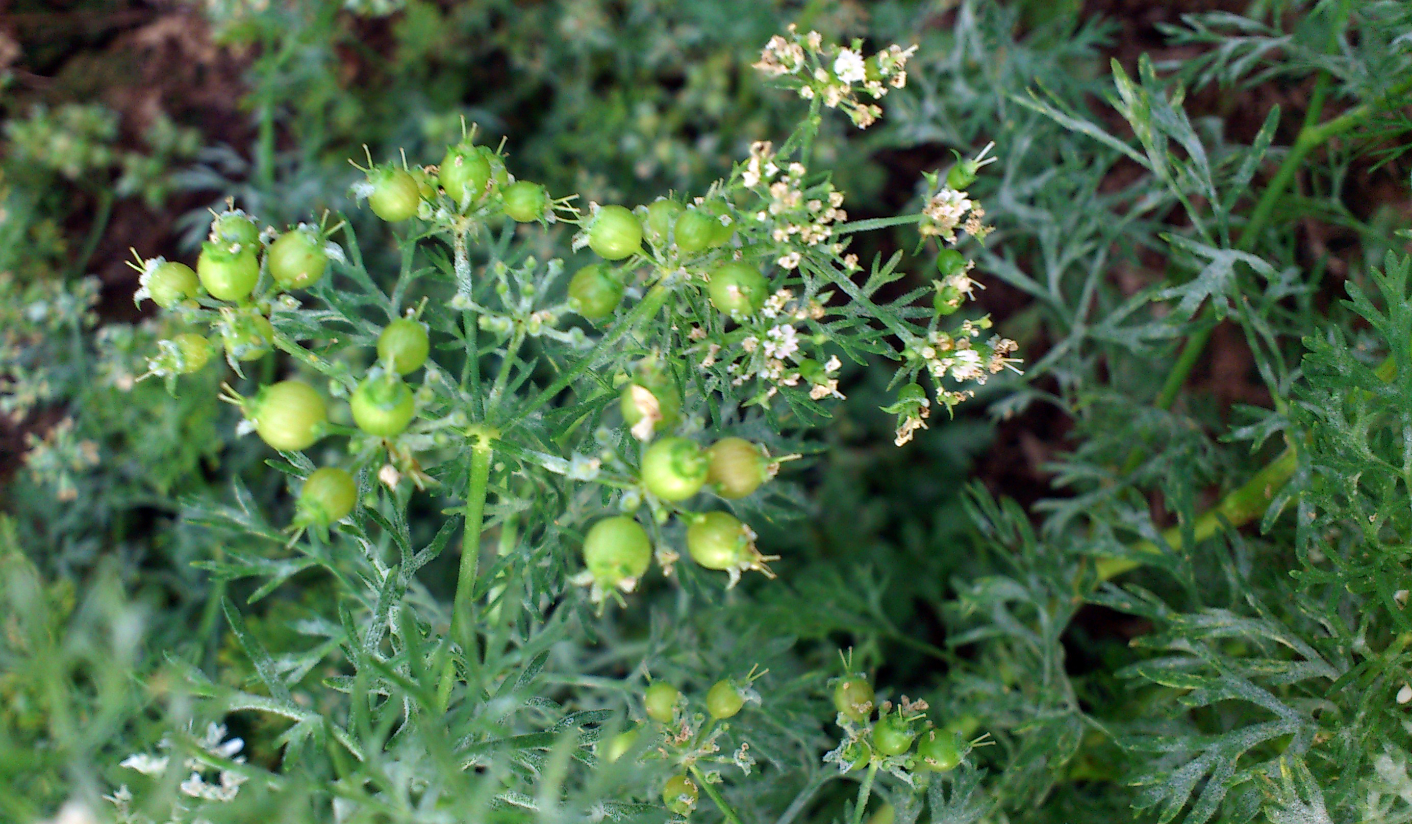 Coriander